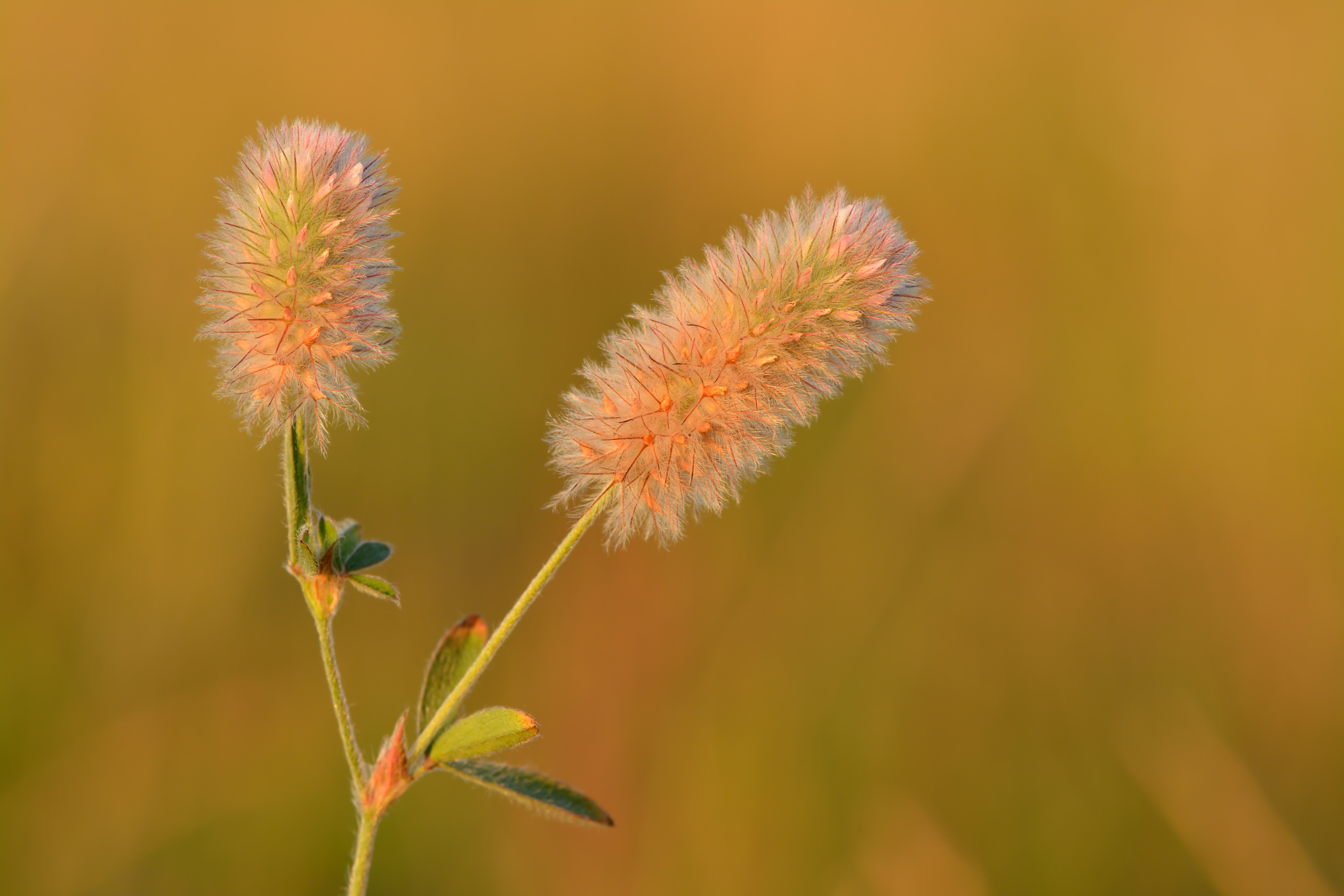 Haresfoot clover.